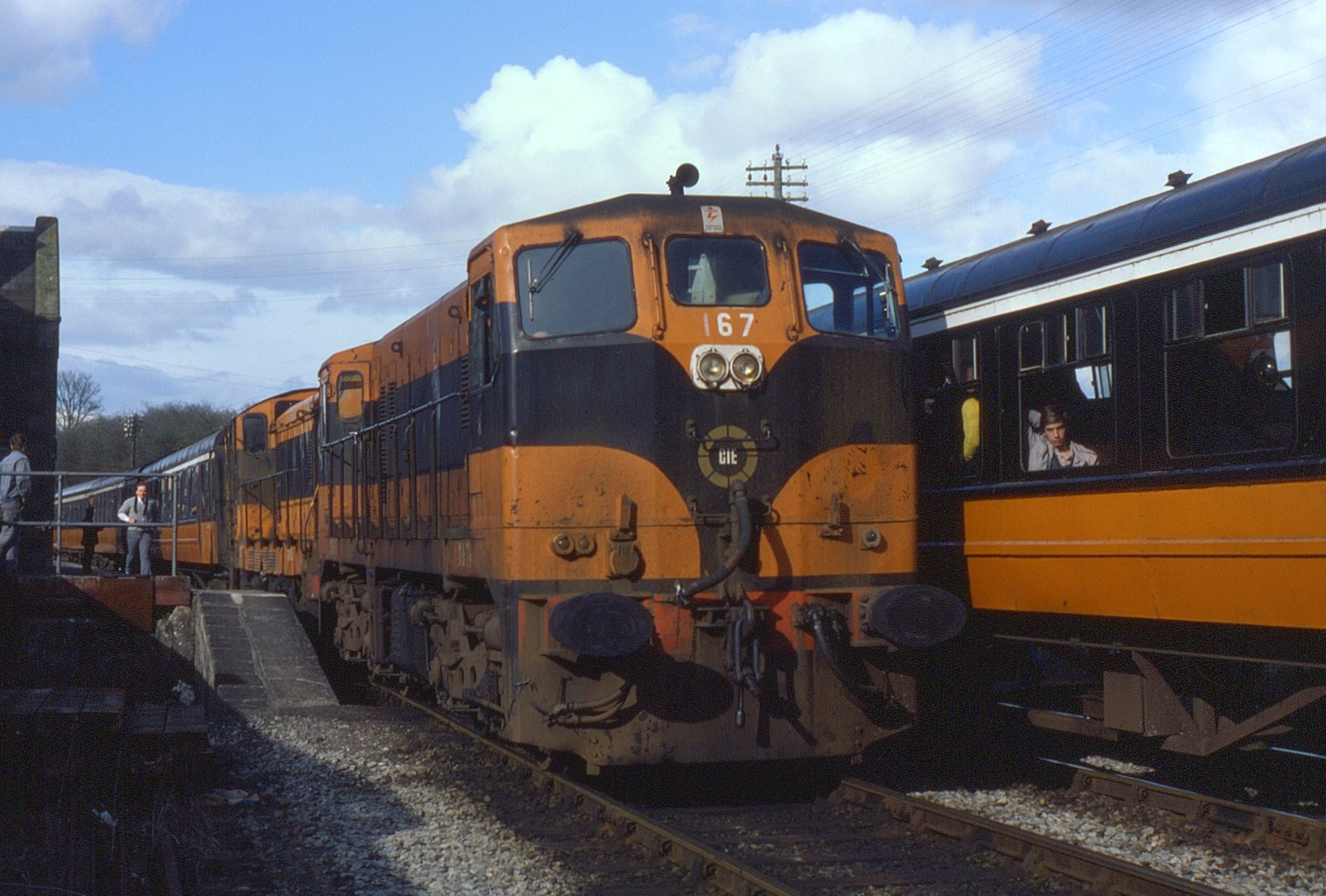 Taken during a photostop at Thomastown on the Waterford to Dublin line during F&W Railtours "Eireann Counties Crusader" railtour on 6 April 1985. Closest to the camera is no. 167 with 128 behind. The train crossed over here with a service train between Dublin and Waterford, of which can be seen to the right. Usual practice in Ireland is for trains to cross over "wrong direction" to the right hand side of a loop.